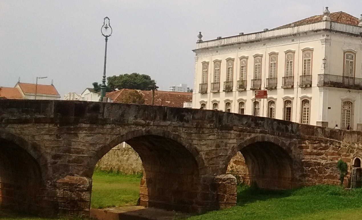 Bridge in downtown São João del Rei, Brazil